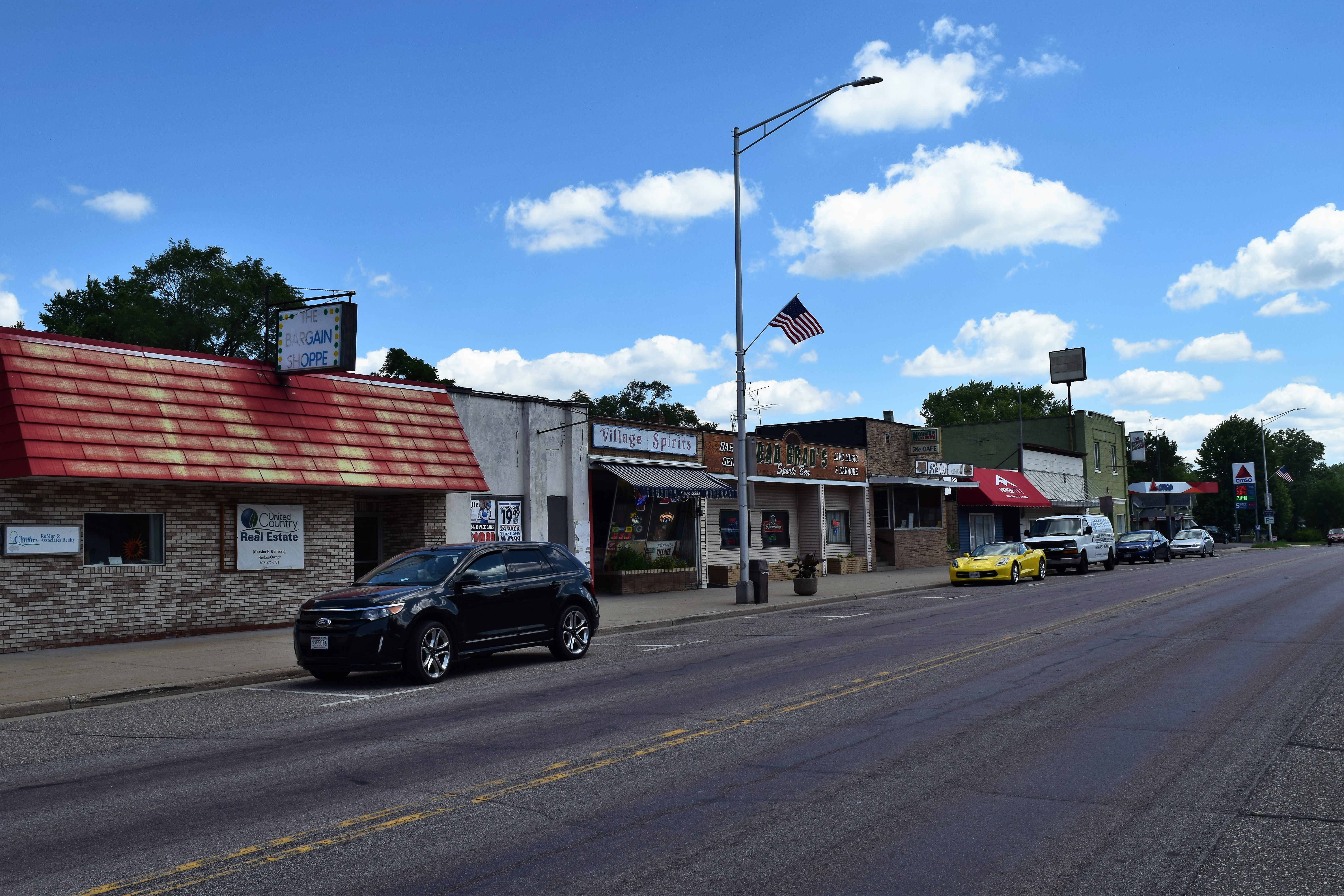 Businesses along Wisconsin Highway 82 in downtown Oxford, Wisconsin.